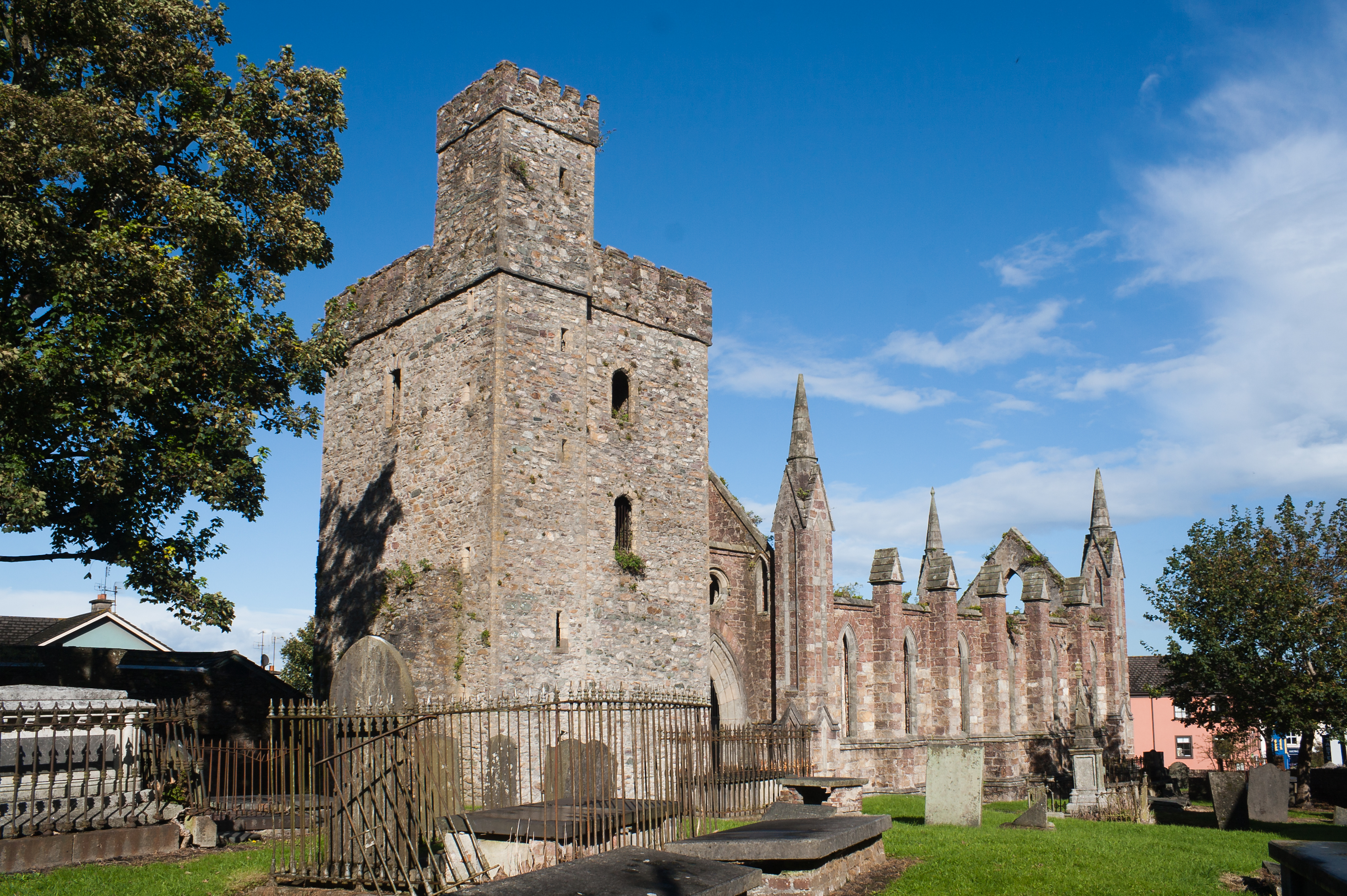 Tower of Selskar Priory (left, restored in the 19th century) and nave with pinnacles of Selskar Church (right, built in the 19th century).